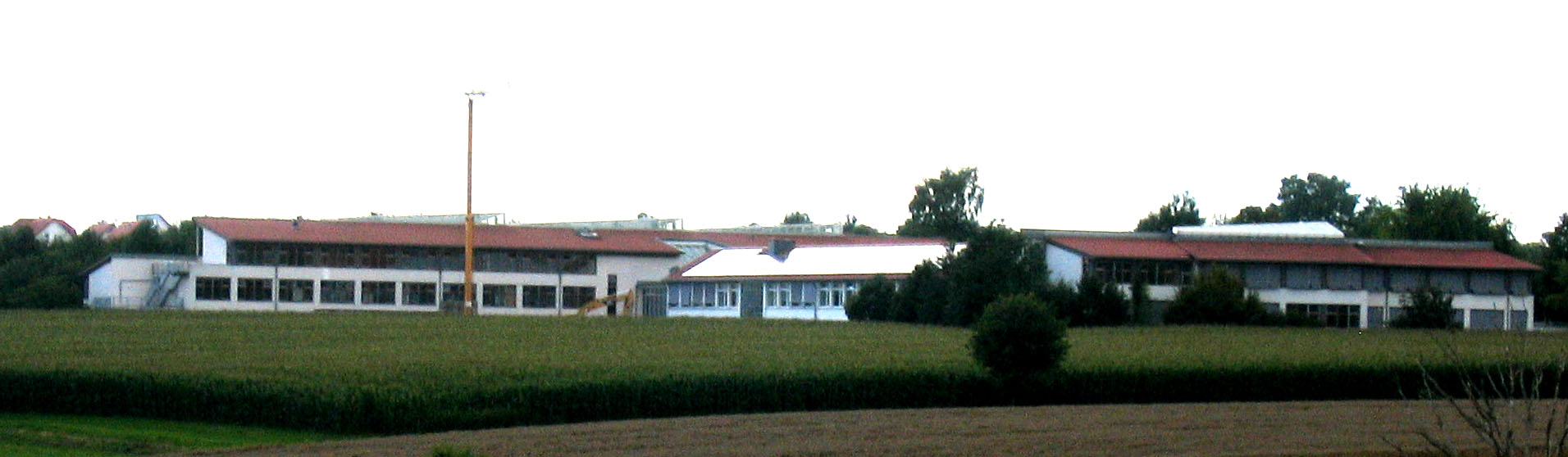 Comprehensive school in the town of Rödinghausen-Schwenningdorf, Germany, wit solar cells on roof top.